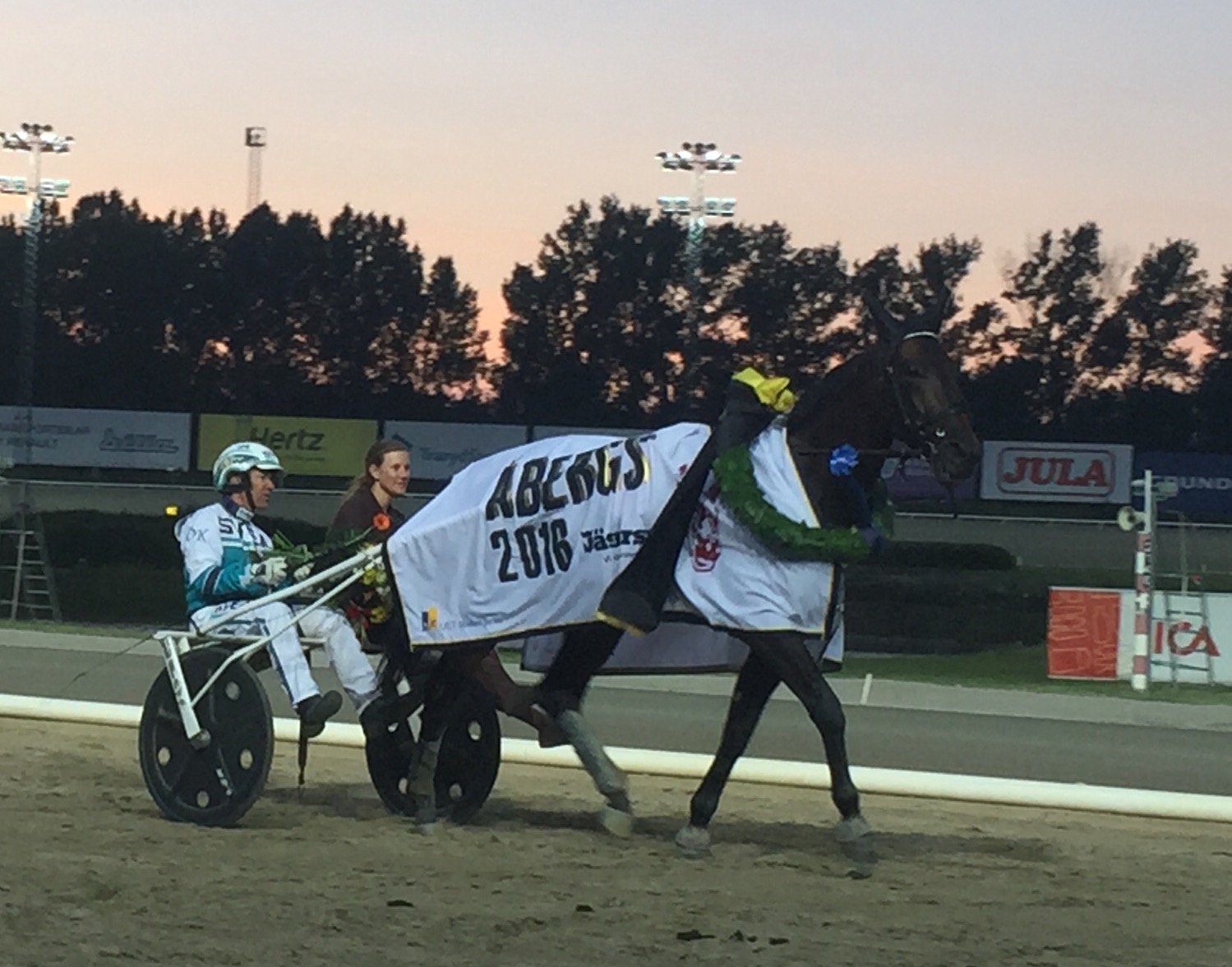 Propulsion and driver Örjan Kihlström after winning Hugo Åbergs Memorial 2016 at Jägersro, Sweden.